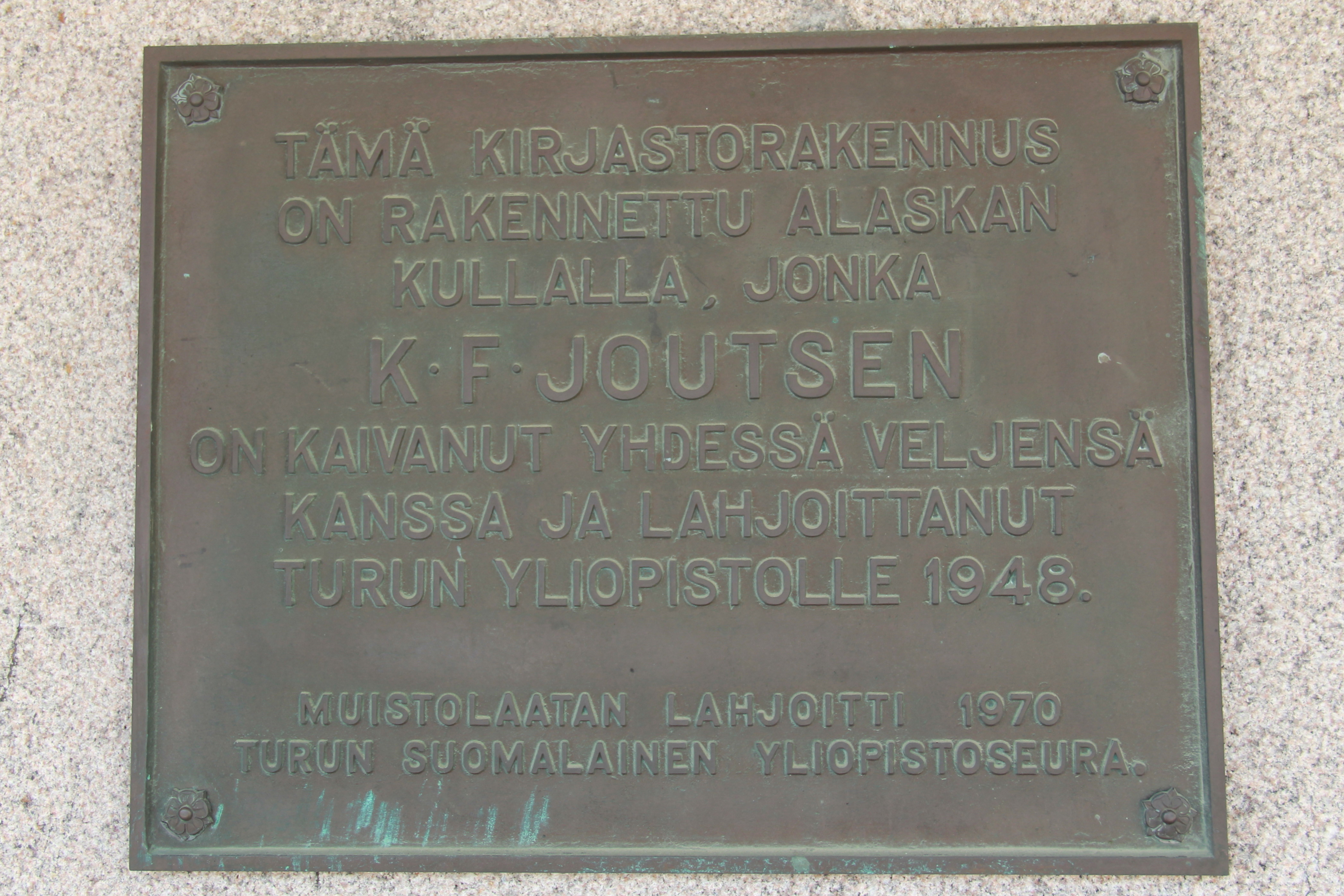 University of Turku, main library memorial plaque.